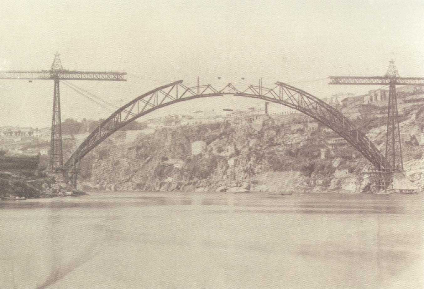 Construction of the D. Maria Pia railway bridge, near the city of Oporto, in Portugal. Situation of the works in 27 August 1877.